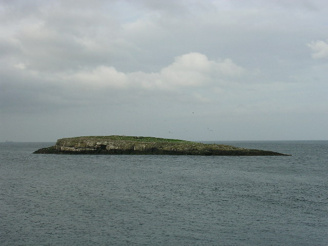 Ynys Moelfre. Taken from SH 516866